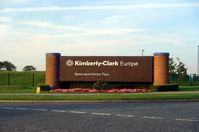 Kimberly-Clark Plant Entrance. Entrance to Kimberly-Clark factory, Barton-Upon-Humber, North Lincolnshire.